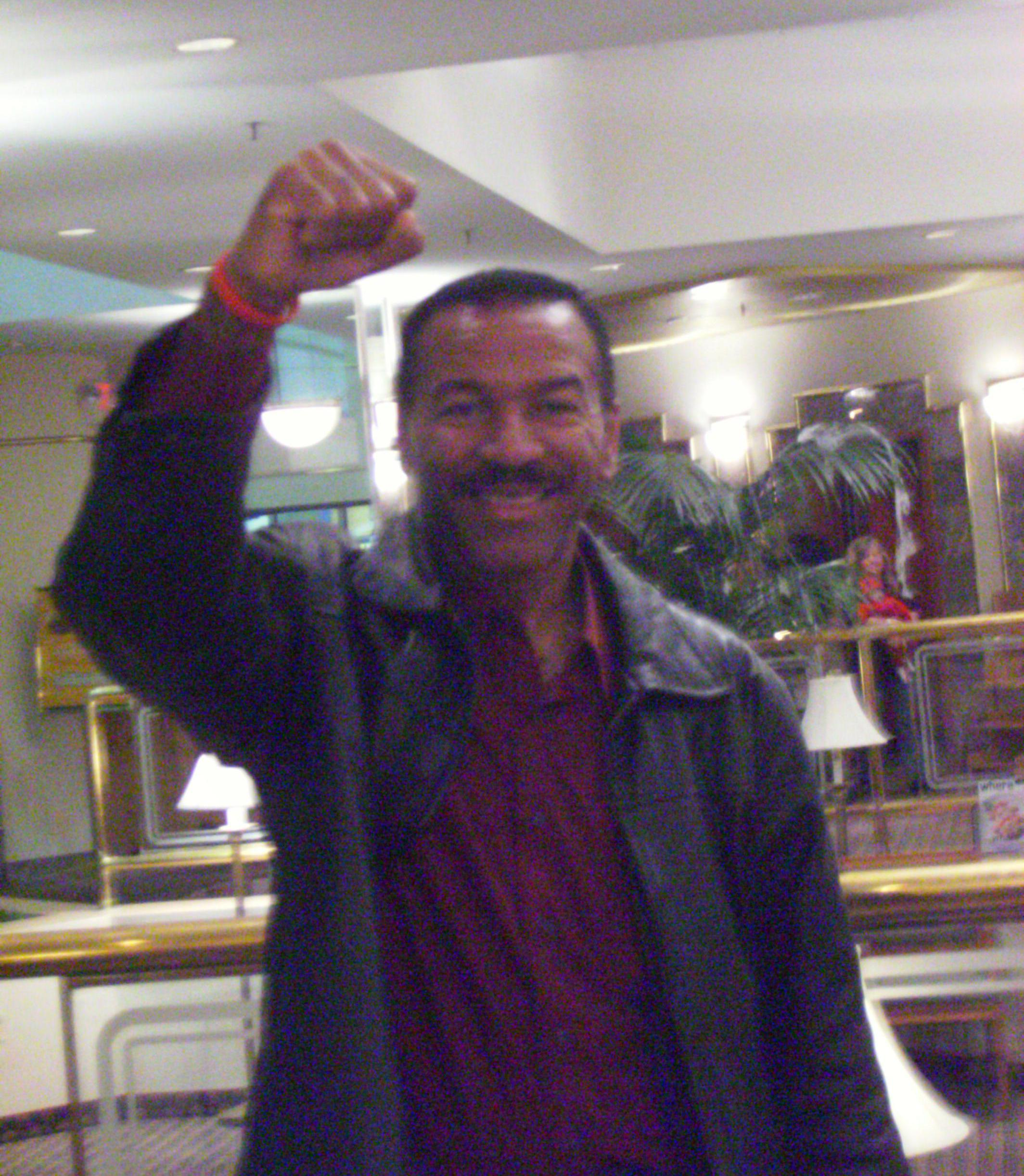 Stewart Alexander sporting the "Wriststrong" Wristband in an official campaign picture taken shortly after his nomination for Vice President of the United States of America by the Socialist Party USA at their National Convention in St. Louis, Missouri, October 20, 2007